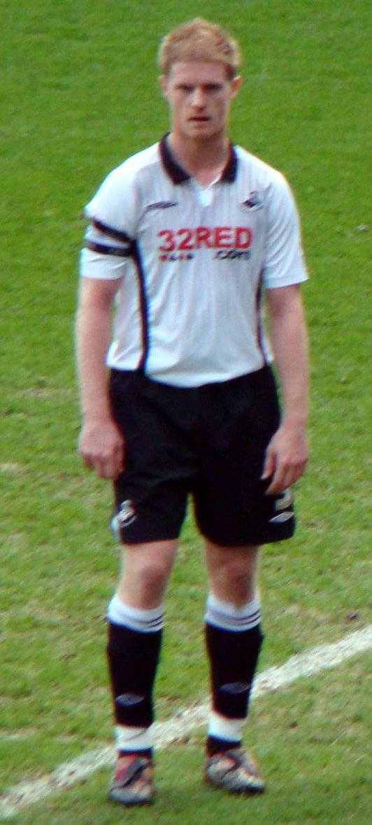 03/04/10 Cardiff V Swansea, Chamionship, Cardiff City Stadium, Cardiff, Wales